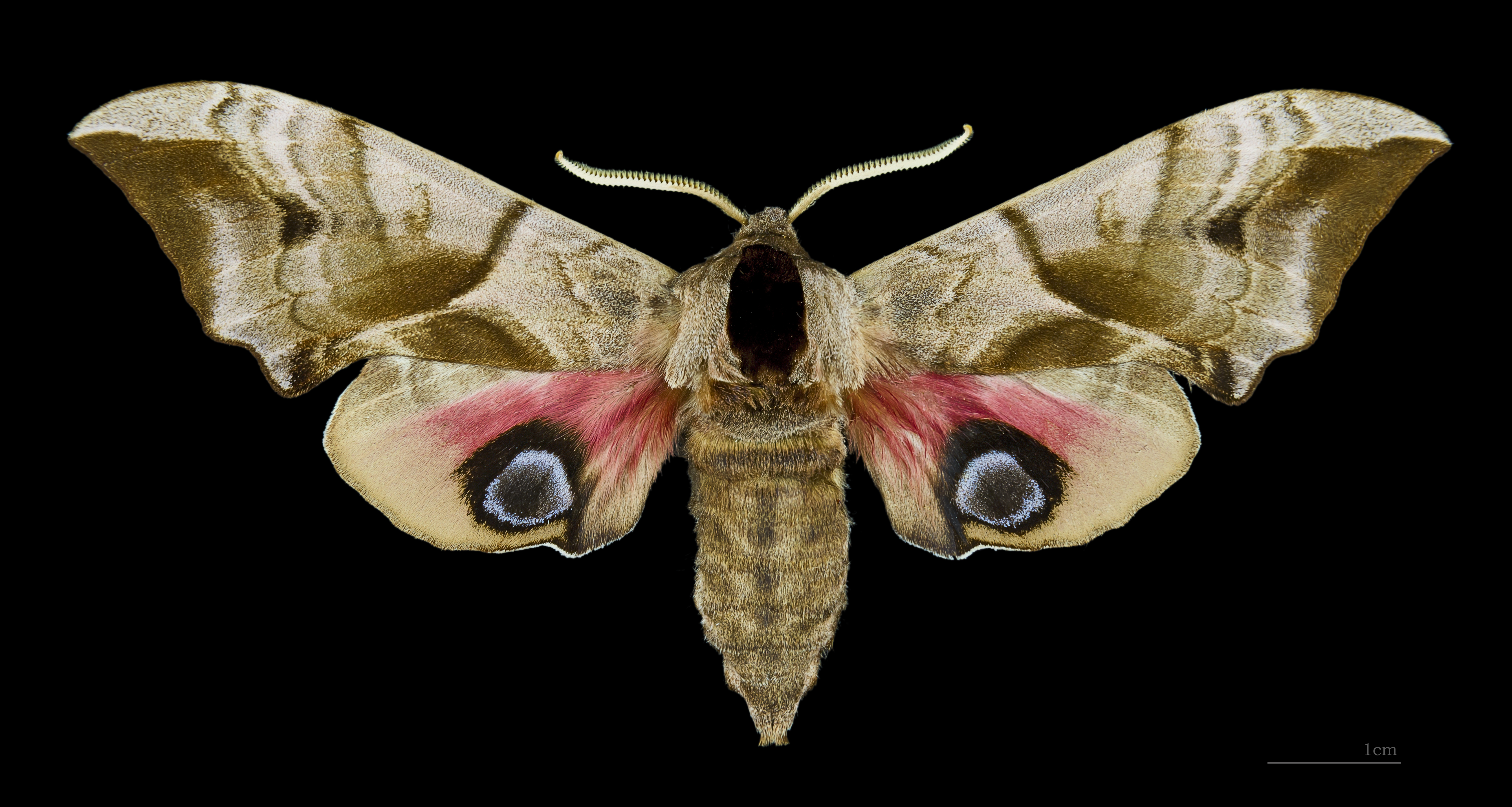 Eyed Hawk-Moth - Dorsal side